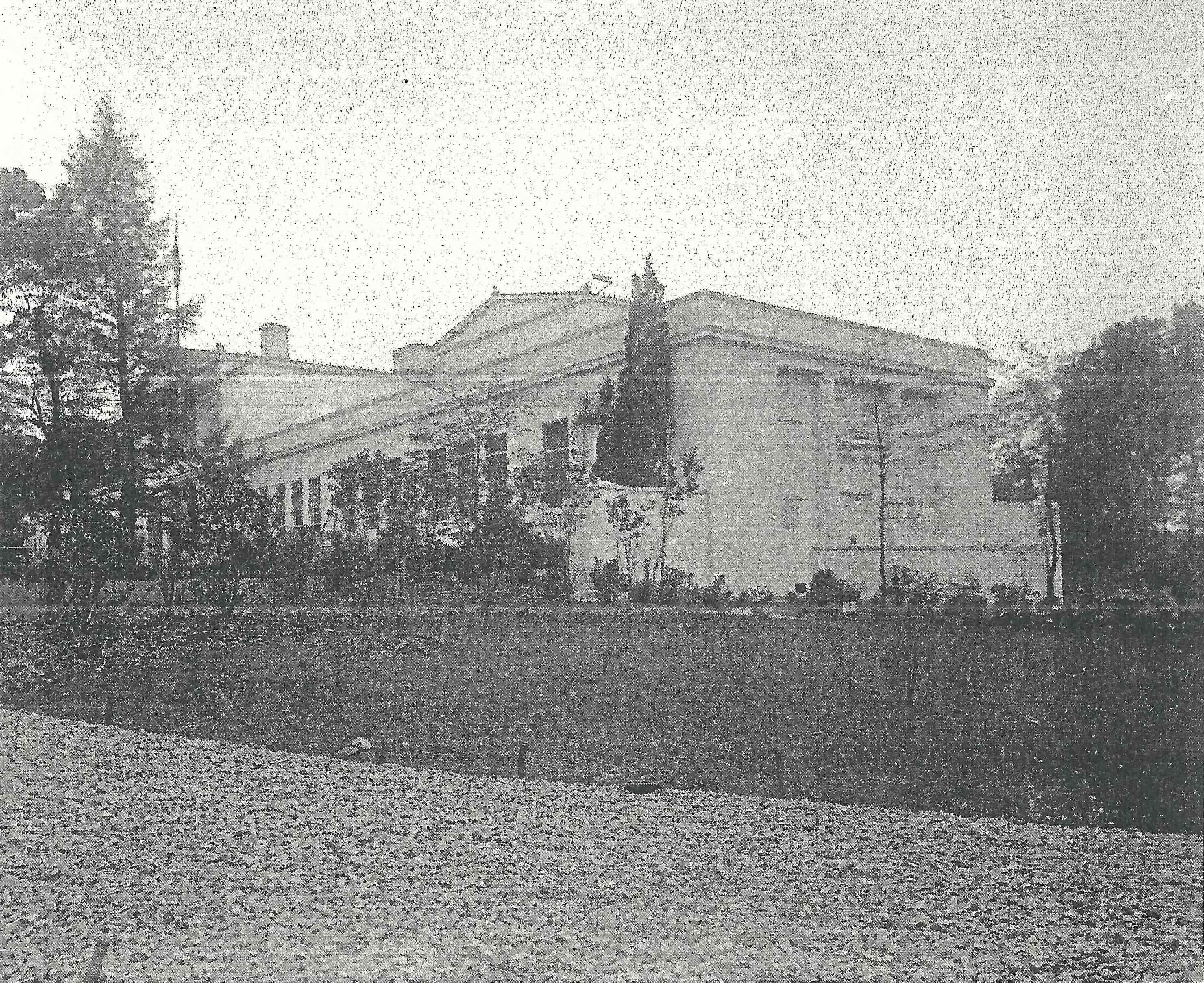 This is an image of the main building of the Scarborough School in Briarcliff Manor, New York.